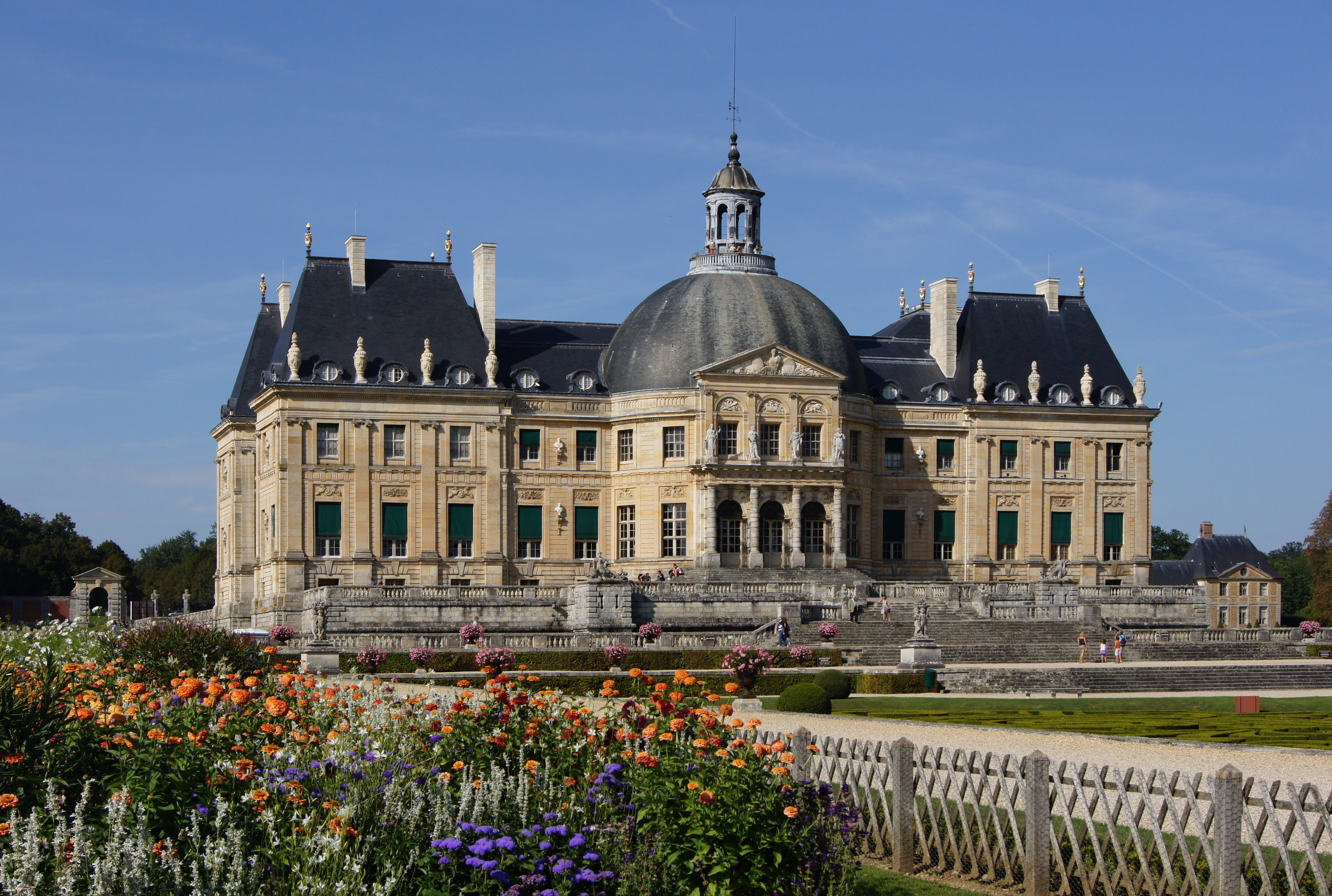 The castle of Vaux-le-Vicomte, in Maincy (Seine-et-Marne, France): the south façade, as seen from the gardens. This picture was the Picture of the day of the French Wikipedia on September 23, 2010; that same day, the French Wikipedia reached 1,000,000 articles.